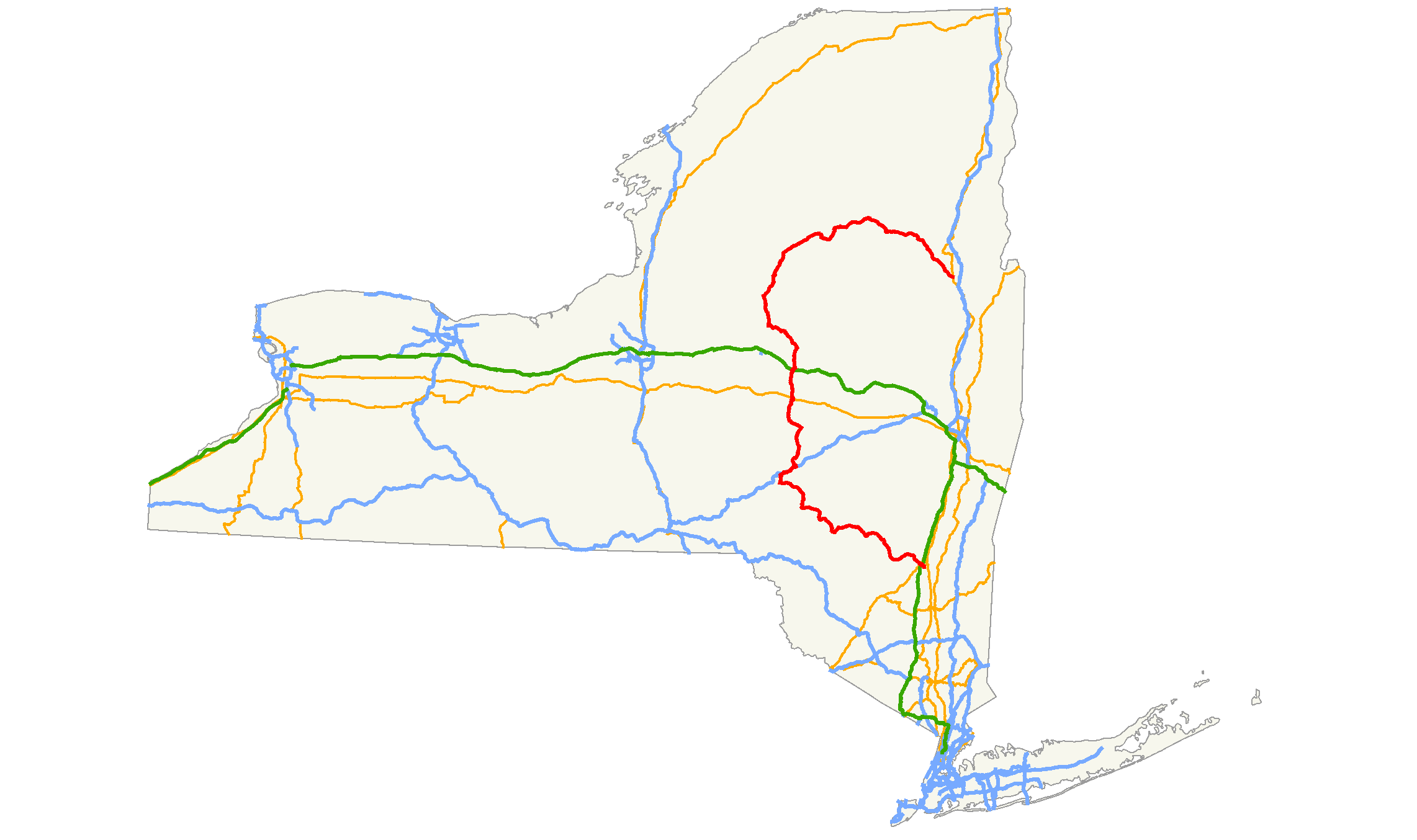 Map of New York State Route 28